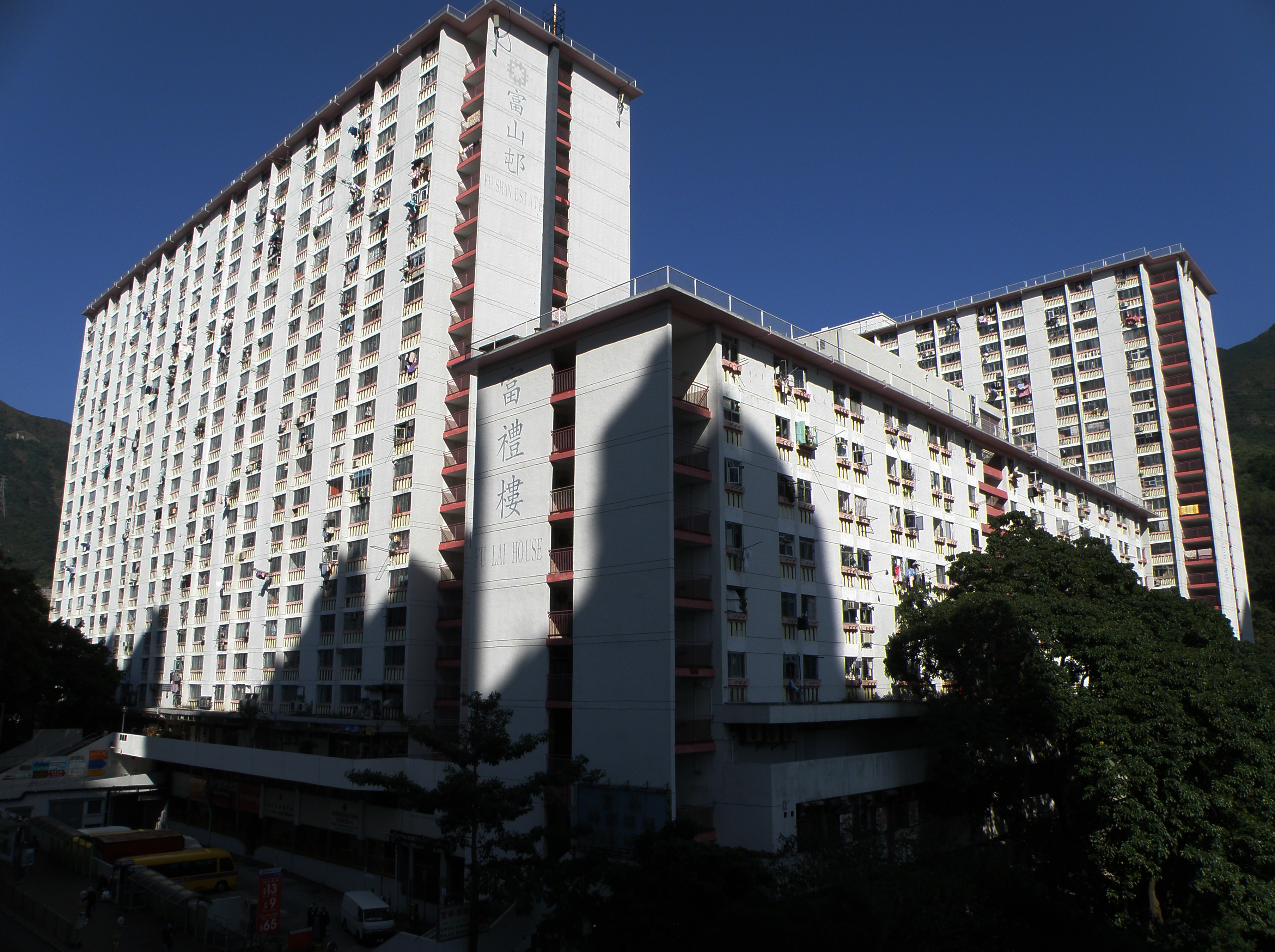 Fu Shan Estate in Hammer Hill, Hong Kong.